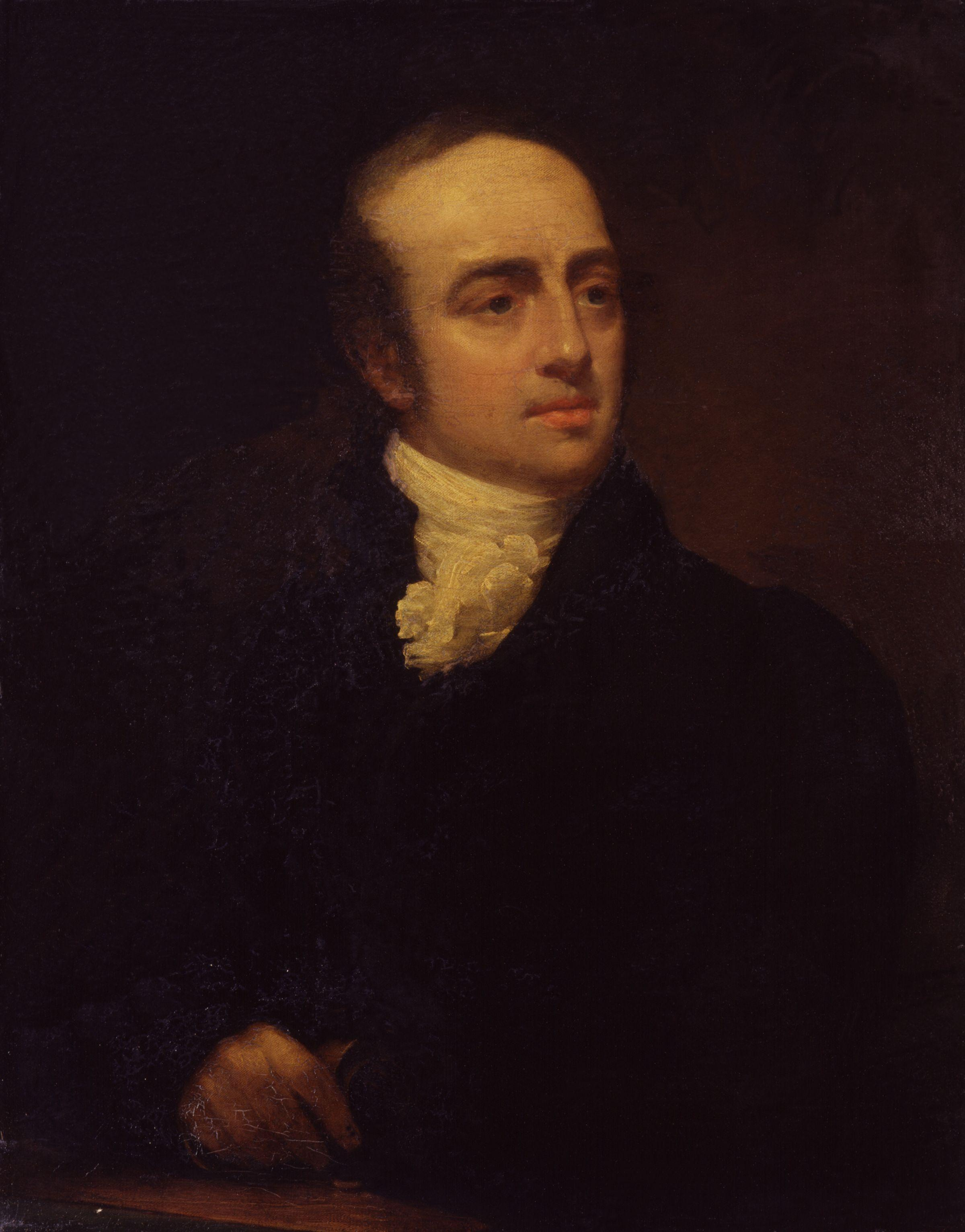 William Say, by James Green (died 1834). All images in this batch have been confirmed as author died before 1939 according to the official death date listed by the NPG.